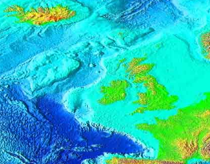 Bathymetry of the Northeast Atlantic Ocean.